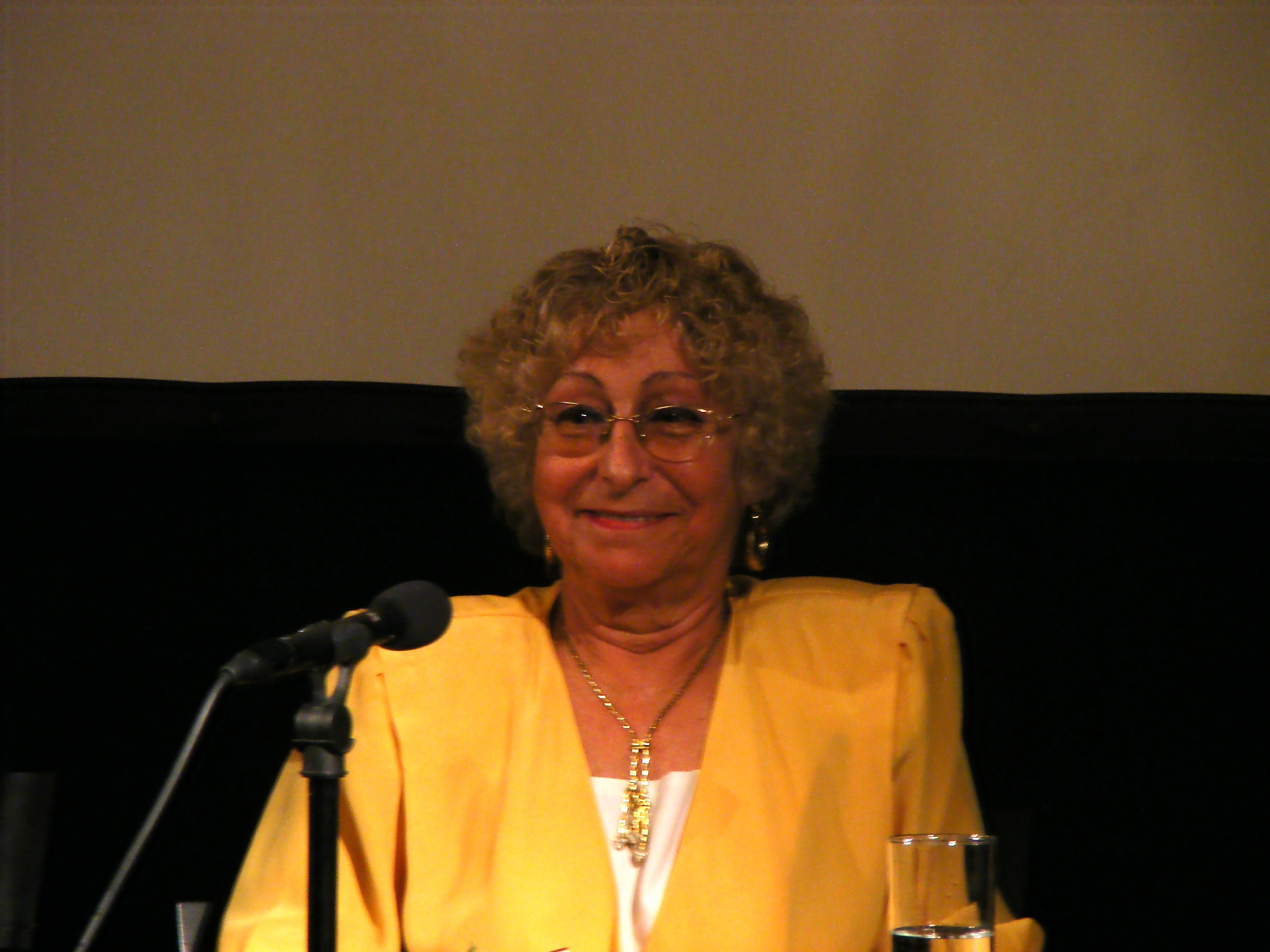 Christine Haidegger, author living in Salzburg, Austria